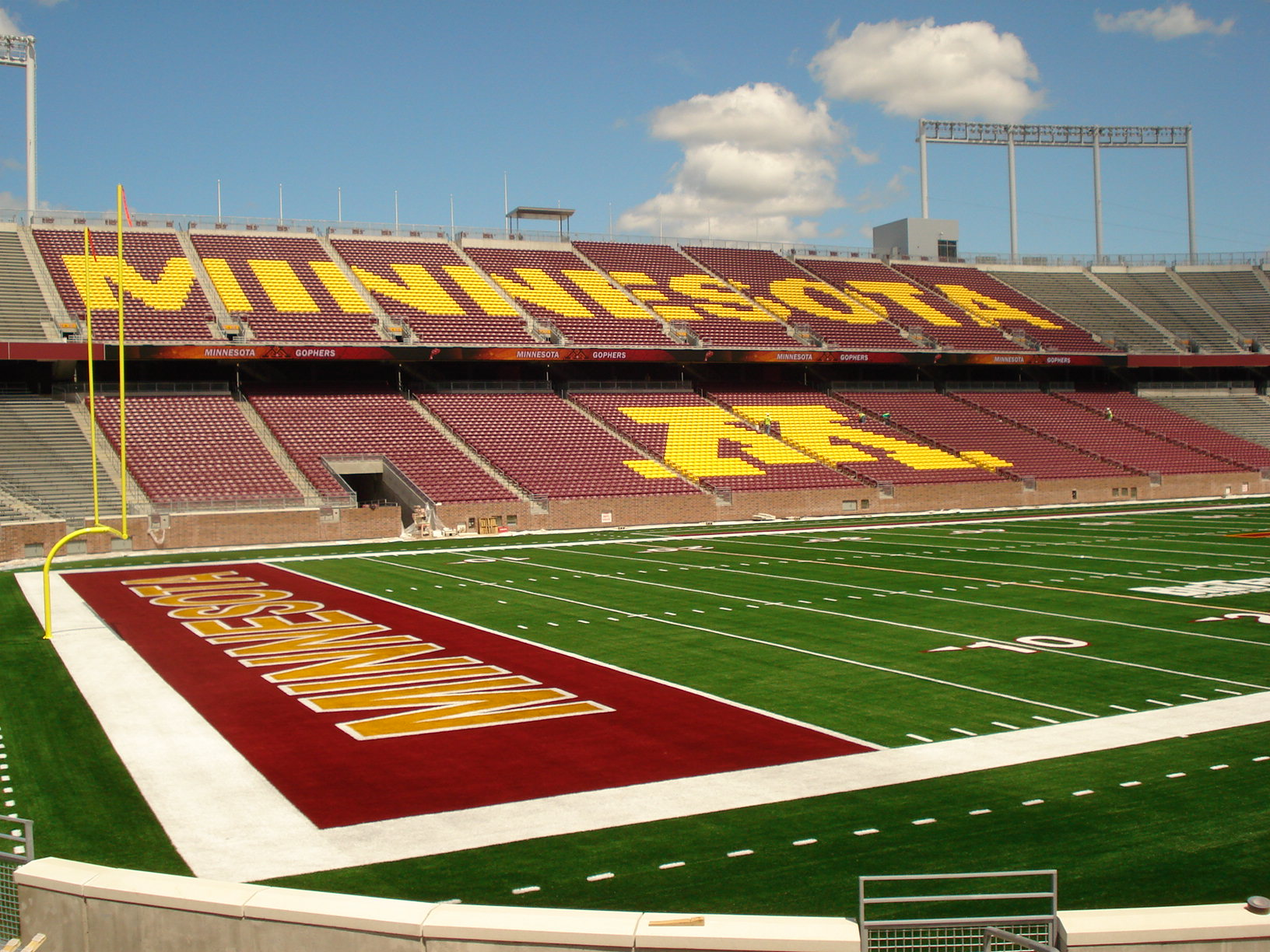 This photo was taken during the summer before any games had been played here. (Photo was taken by a family member on my camera)